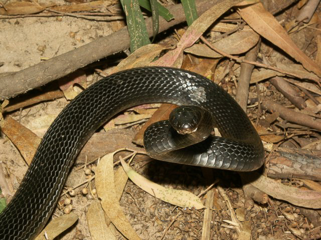 Dolichophis jugularis